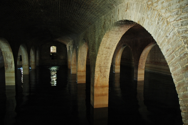 Interior del depósito de aguas de Guadalajara (España).